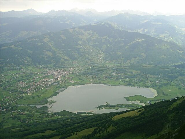 Plavsko jezero in Prokletije mountains, Montenegro